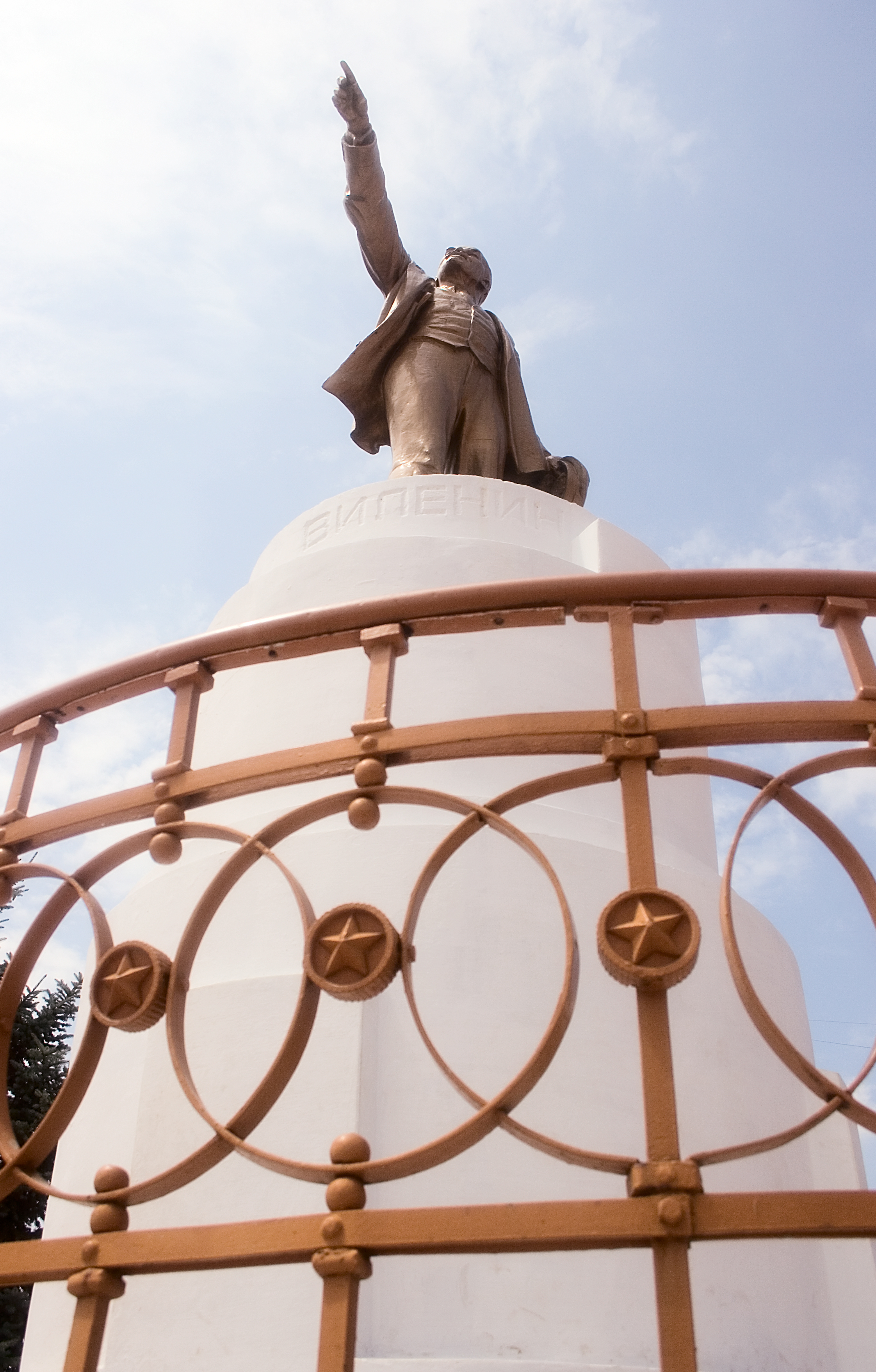 Армавир 2011 (0001)